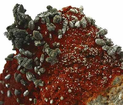 Vanadinite, Descloizite Locality: Georgetown, Georgetown District, Grant County, New Mexico, USA (Locality at ) Size: 7.8 x 6.3 x 4.4 cm. A rare specimen of New Mexico vanadinite, and from the famous copper mining area that produces the copper pseudomorphs after azurite floaters, too. The crystals are brown with a tint of green, olive green perhaps. The beautiful sparkling druse underneath is descloizite, in burnt umber to blood red coloration. Ex. Harold Urish Collection.